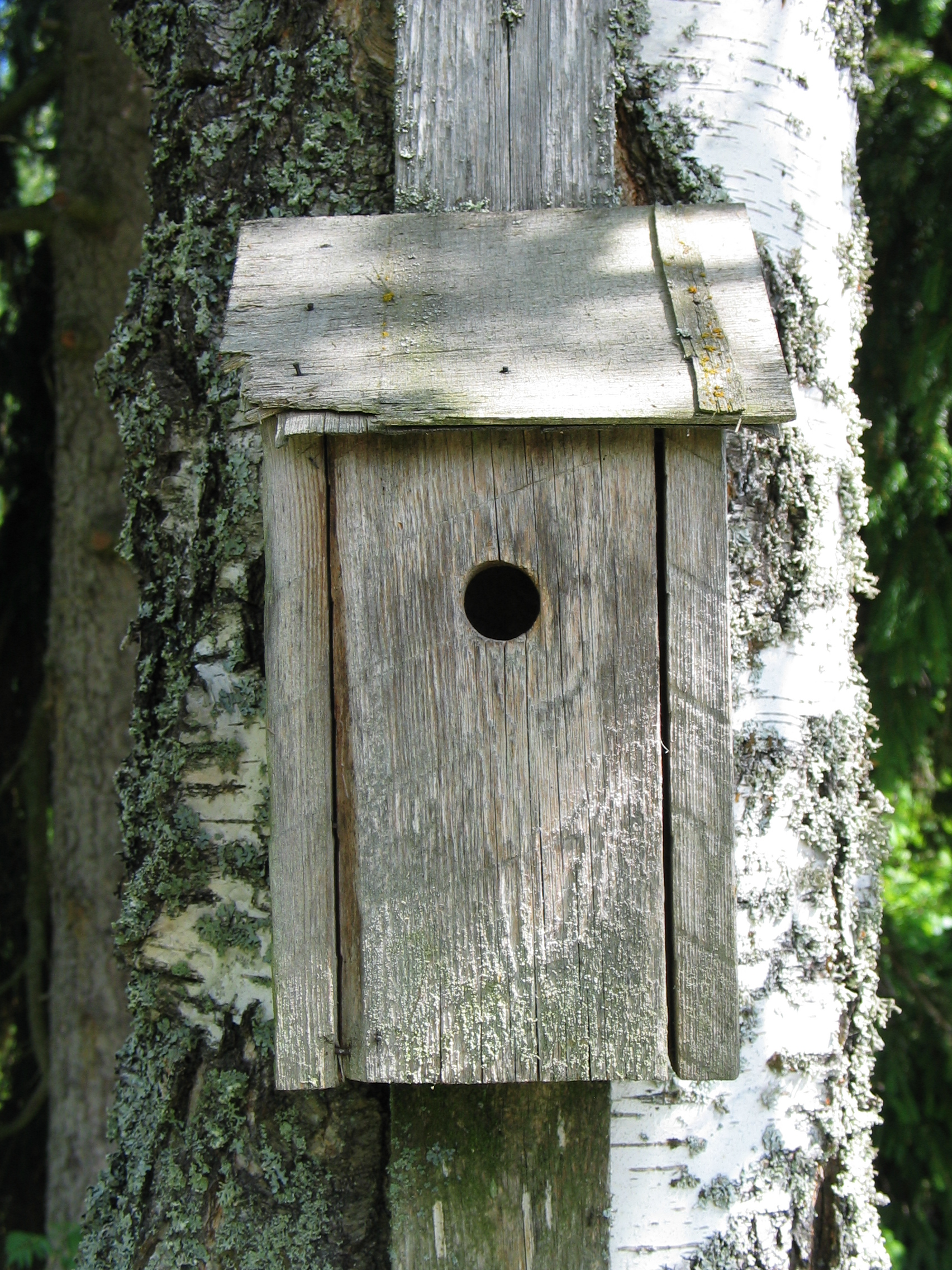 Nest box, photo taken in Sweden